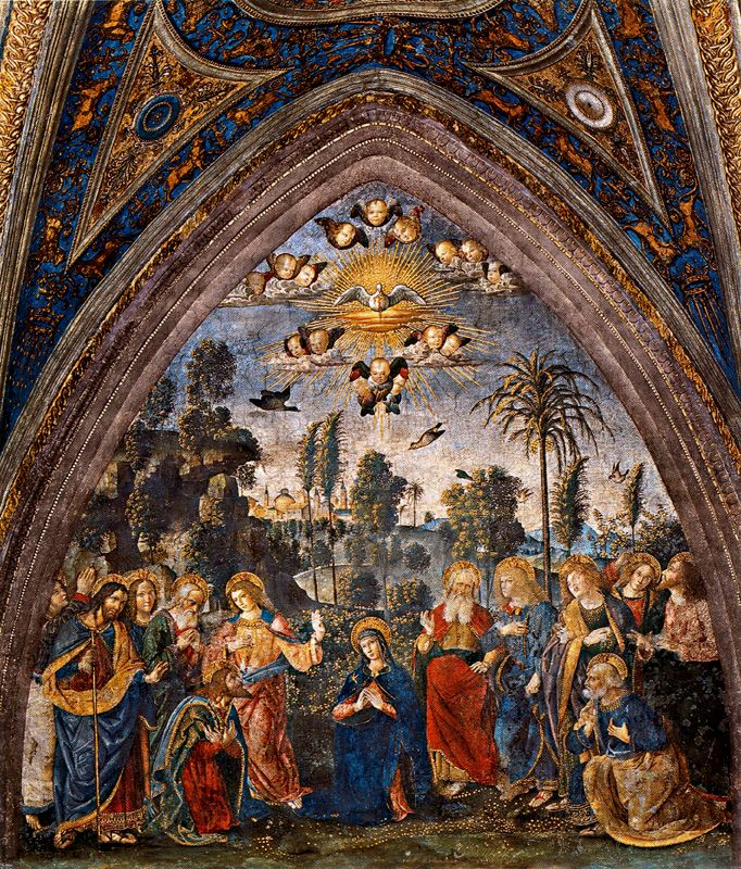 The Assumption of the Virgin The Descent of the Holy Spirit. Fresco Borgia Apartments, Hall of the Mysteries of the Faith